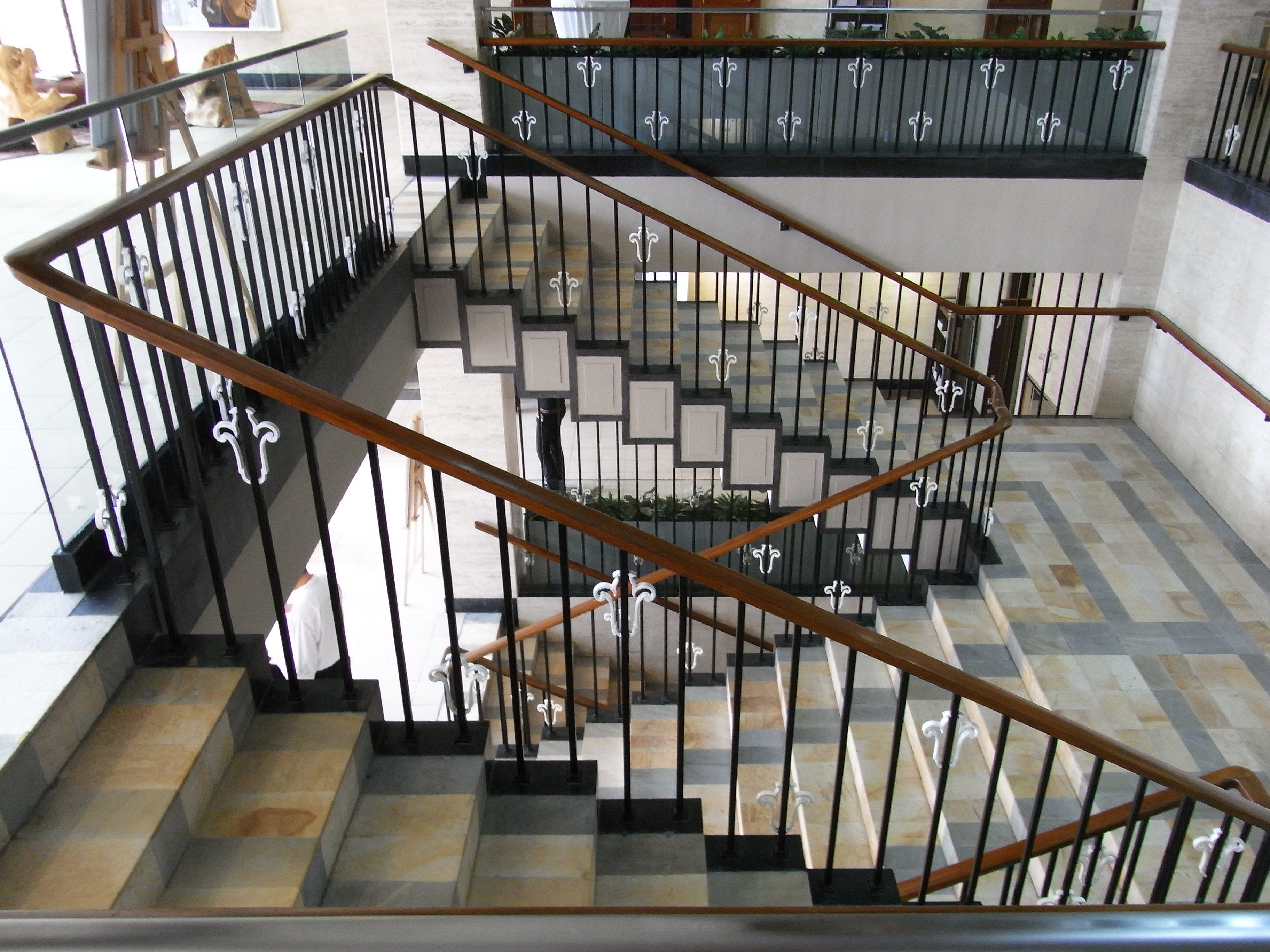 Former North Kowloon Magistracy, no. 292 Tai Po Road, Sham Shui Po District, Hong Kong